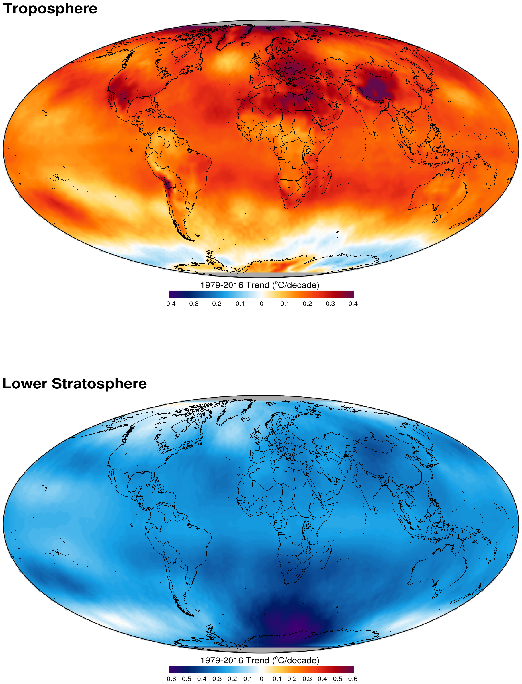 Microwave sounding unit troposphere and lower stratosphere 1979-2016 temperature trend (°C/decade). Data Data description: Troposphere: RSS TTT v4.0 Lower stratosphere: RSS TLS v3.3